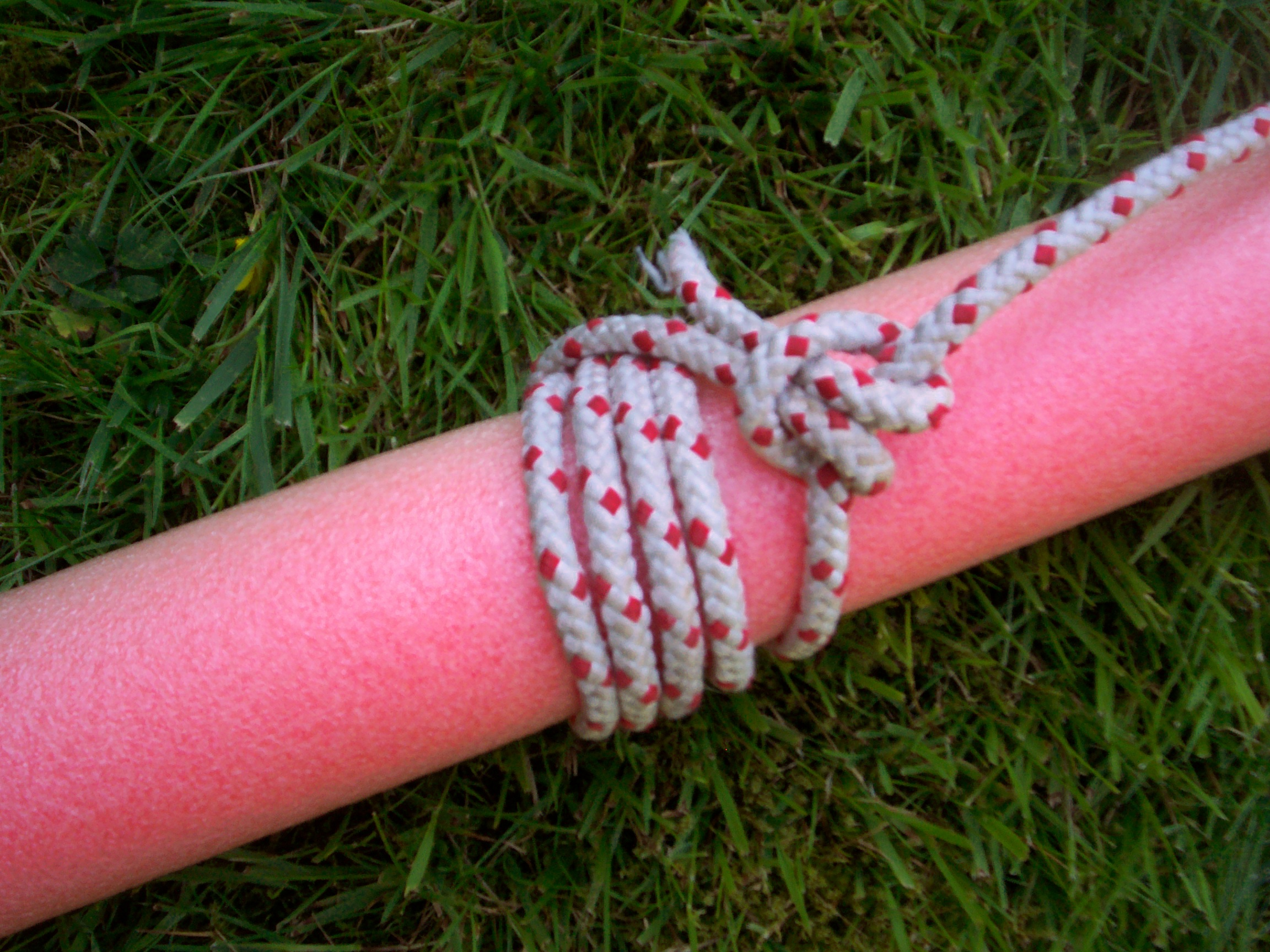 Another knot that goes by the name of "pipe hitch" tied around a pool noodle.